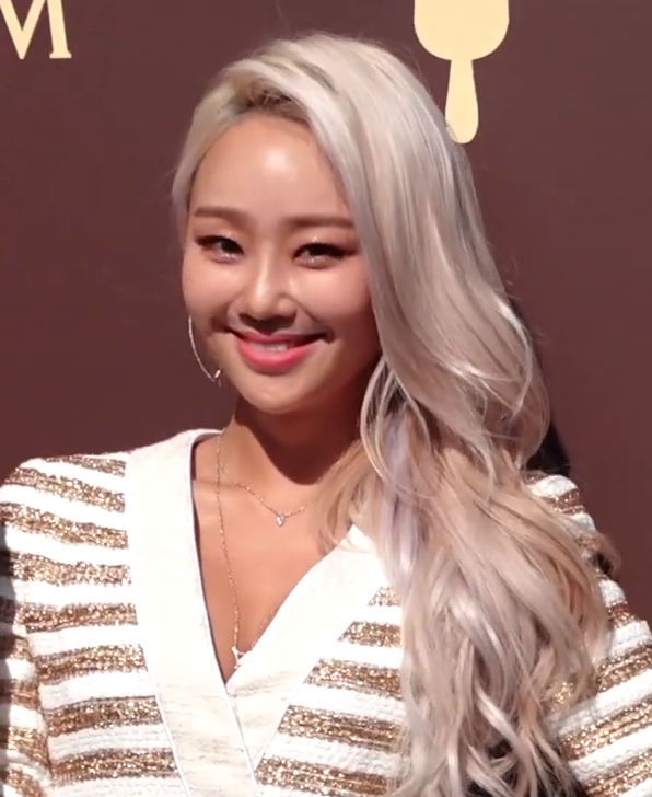 Hyolyn at Opening Ceremony of Magnum's Exhibition 'Five sense museum' on March 2, 2019.